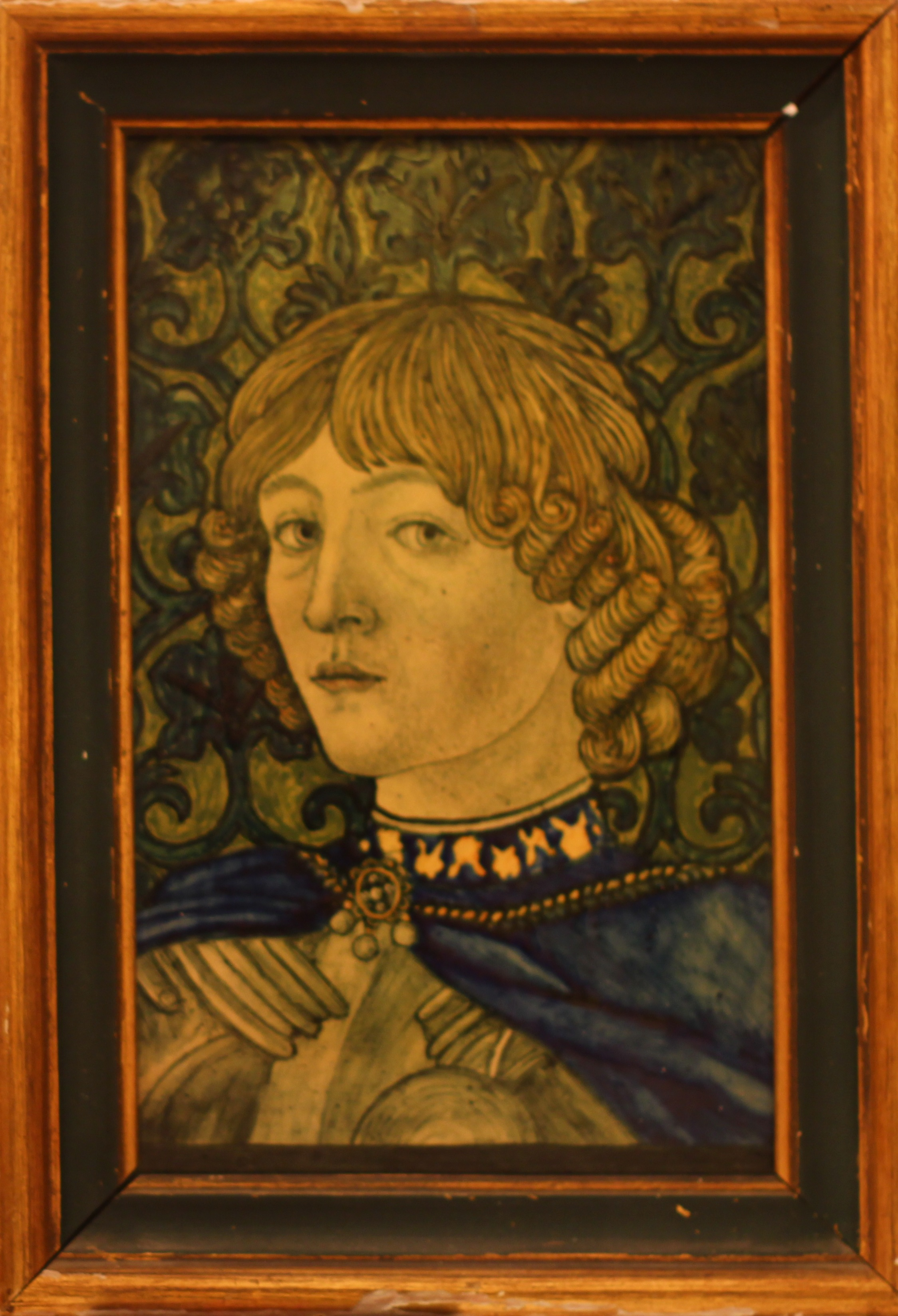 Portrait by Emma Fabri (after ?)